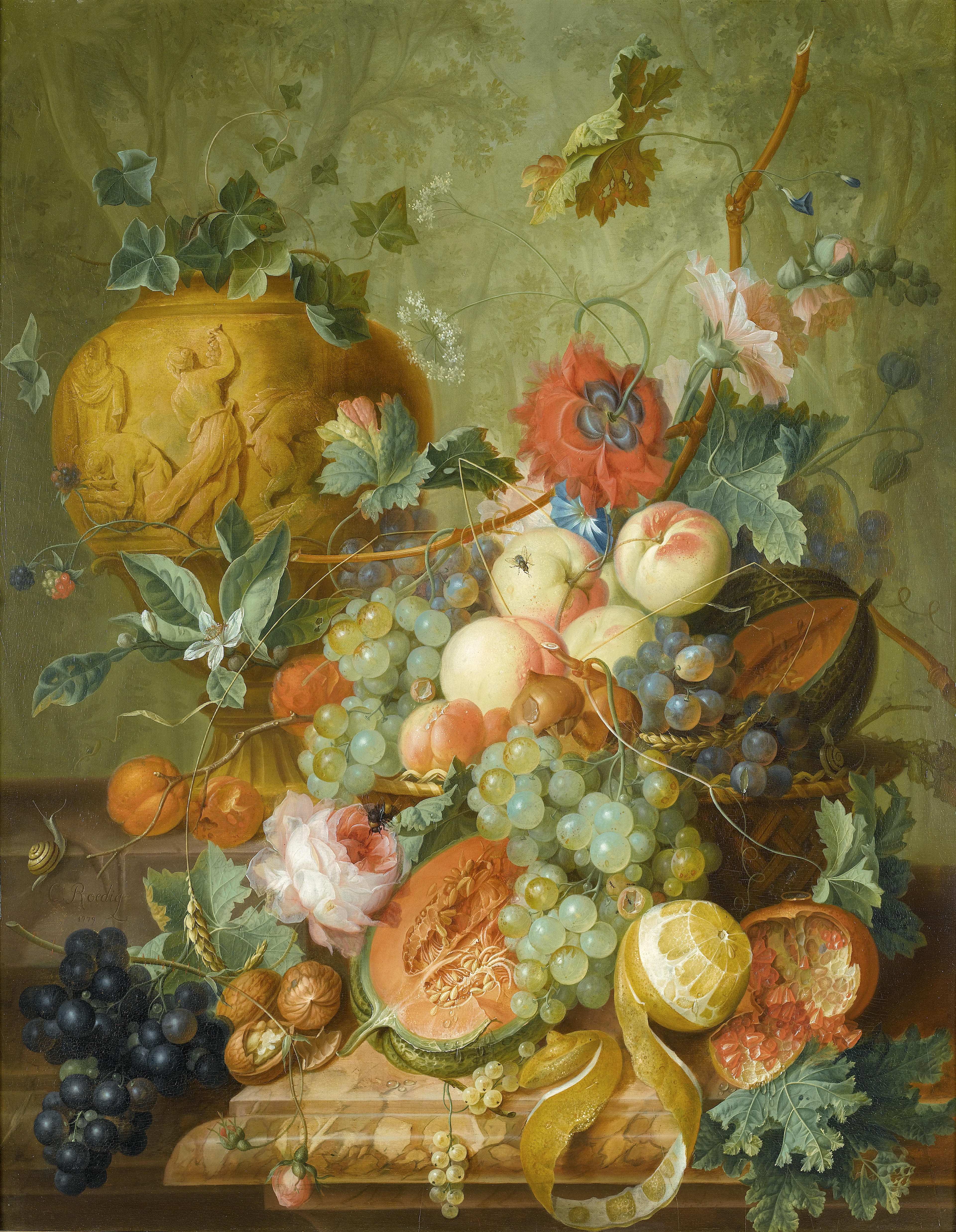 Fruit and flower still life, signed and dated 'C Roedig/1779'